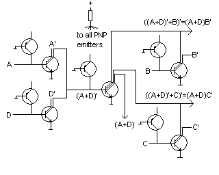 I2L gate architecture